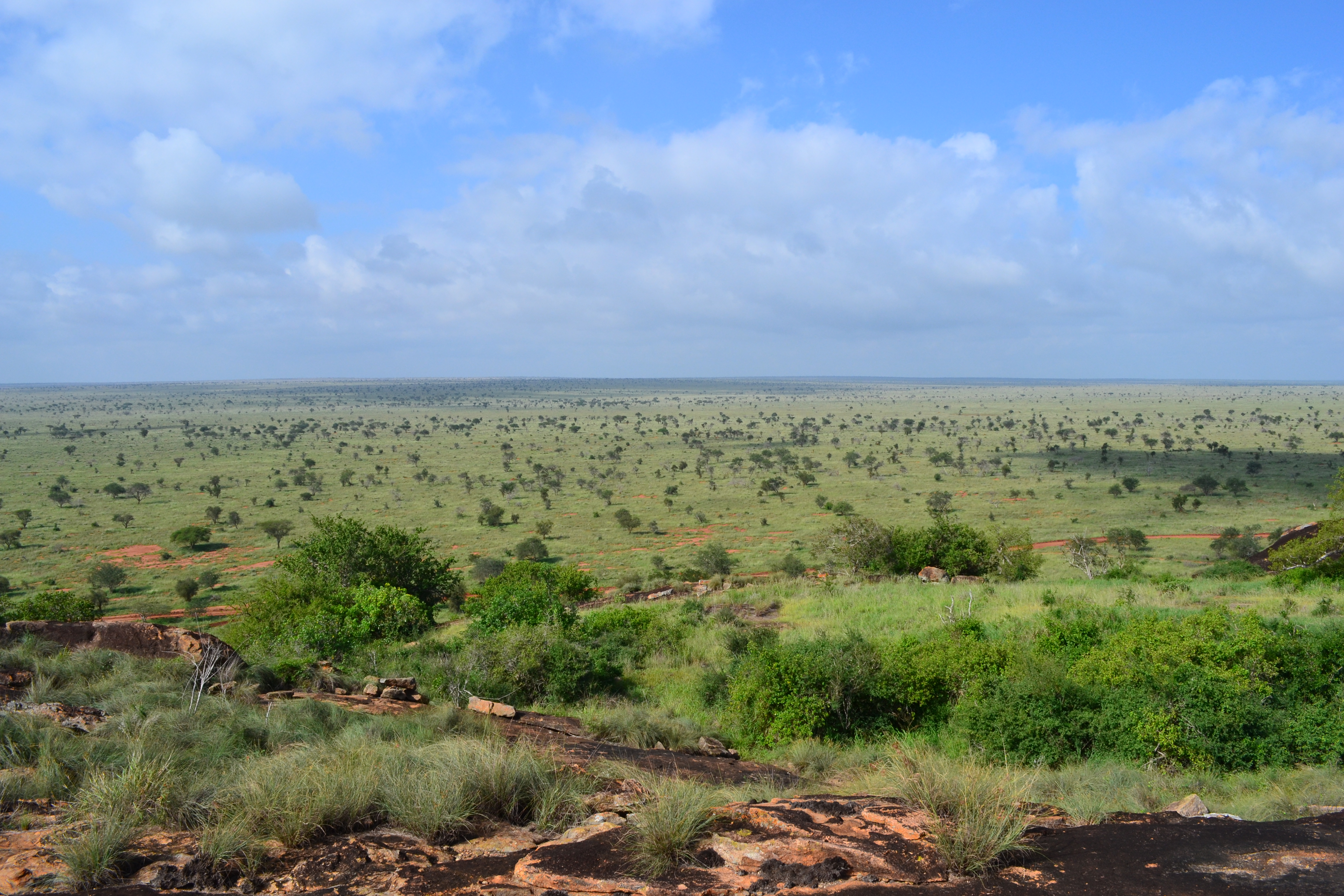 View of the savanna, towards the north, from Lion Rock, within the LUMO Community Wildlife Sanctuary, in Kenya.